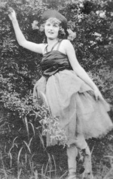 Zelda Sayre at about 18 in dance costume.